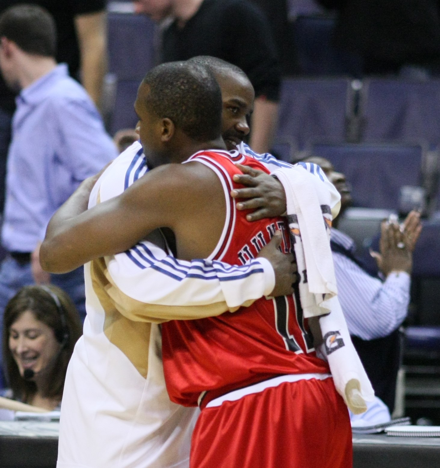 Mike James hugs Lindsey Hunter post-game